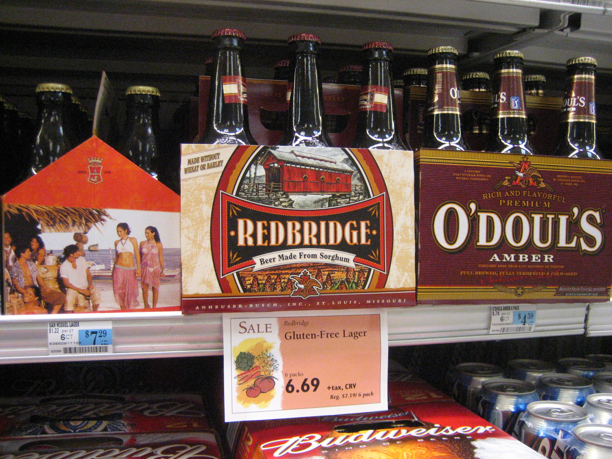 Gluten free beer made from sorghum in an American supermarket; to be used to illustrate articles about gluten-free beer, celiac disease and related topics (not as an advertisement for this specific brand)